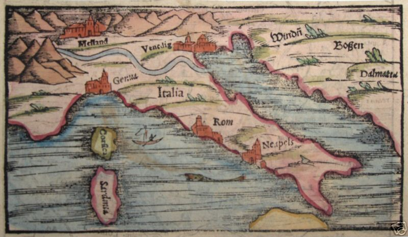 Münster's maps-- some examples from different editions (many with modern hand-coloring)